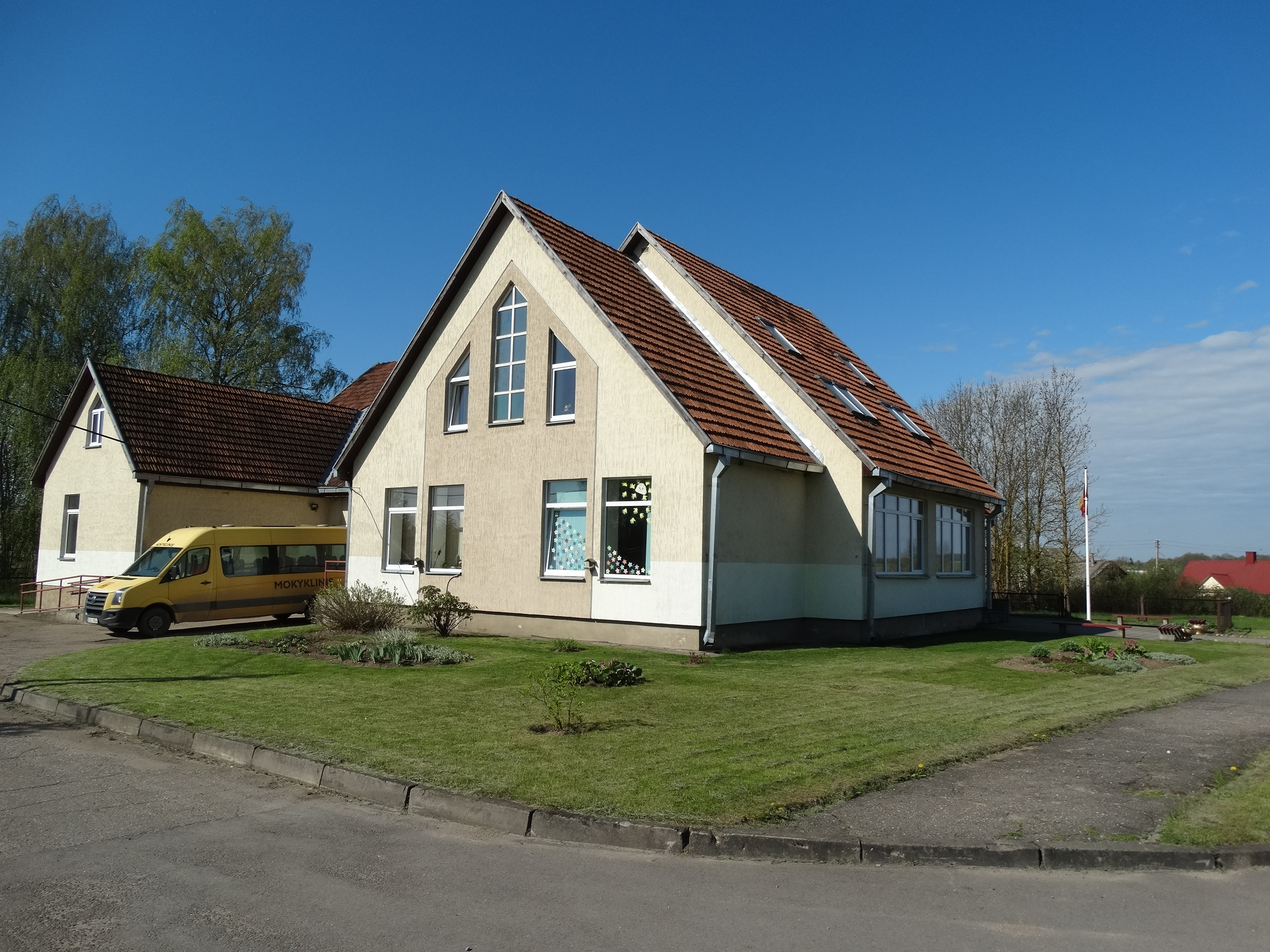 Basic school, Butrimonys, Šalčininkai District, Lithuania